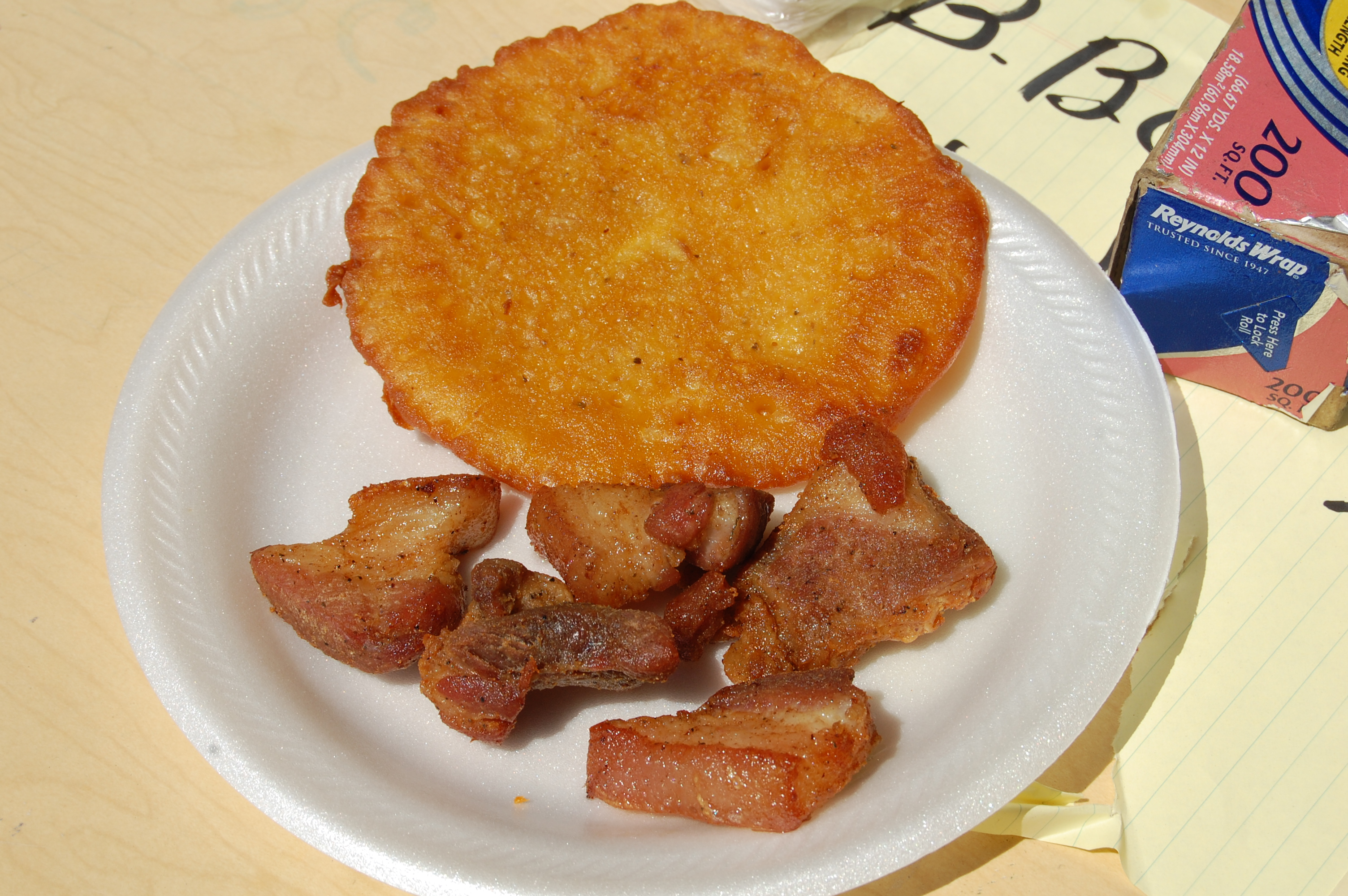 Bacalaítos are a batter fried fritter filled with minced cod fish and garnished with cilantro, tomatoes and onions